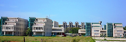 Havana Agrarian University located in San Jose de las Lajas. Formerly known as Havana Higher Institute of Agricultura Science (ISCAH)